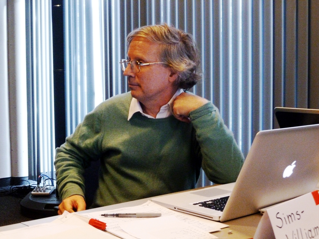 I took this photo at the Berlin Symposium on the Kushans in Dec. 2013